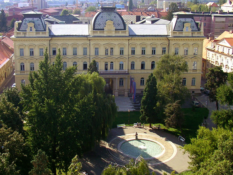 University of Maribor, main building